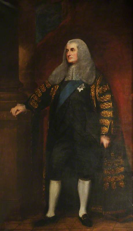 Romney, George; William Henry Cavendish Bentinck (1738-1809), Duke of Portland; Christ Church, University of Oxford